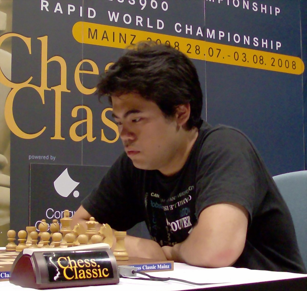 Hikaru Hakamura at the Chess Classics 2008